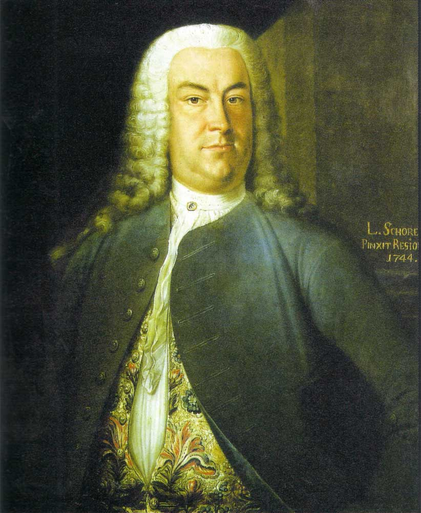 Depicted person: Johann Christoph Gottsched